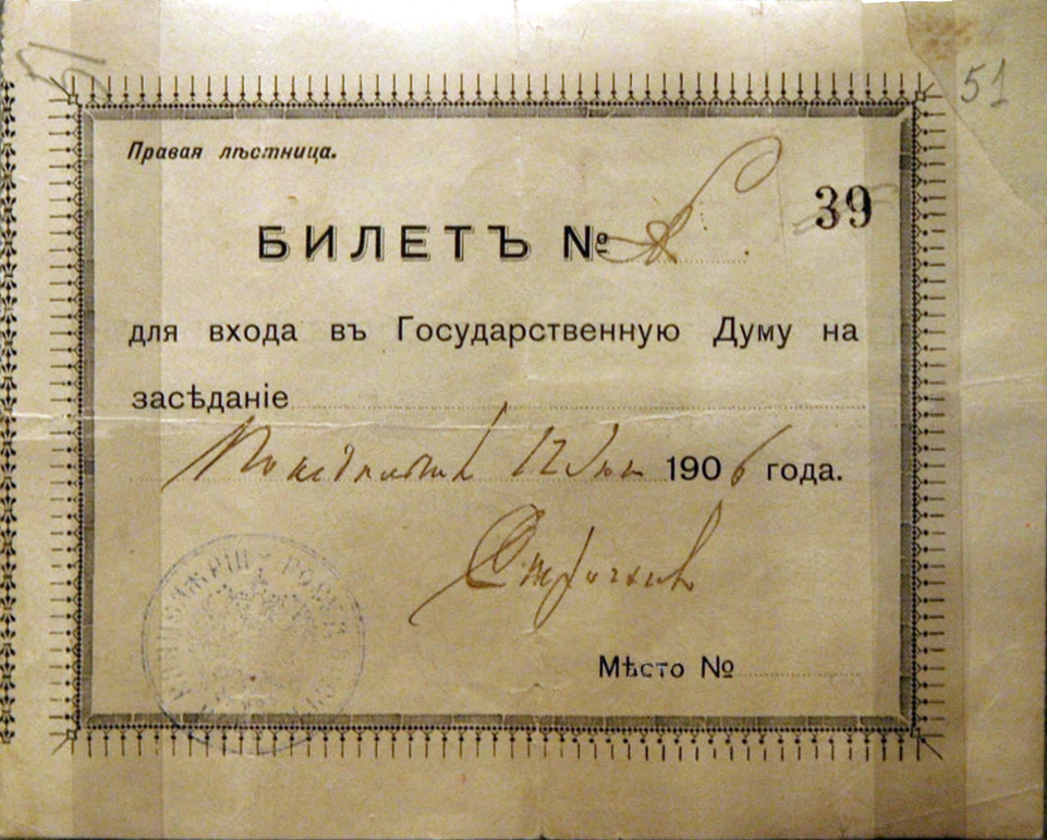 Pass to Russian parlament (1906 year)